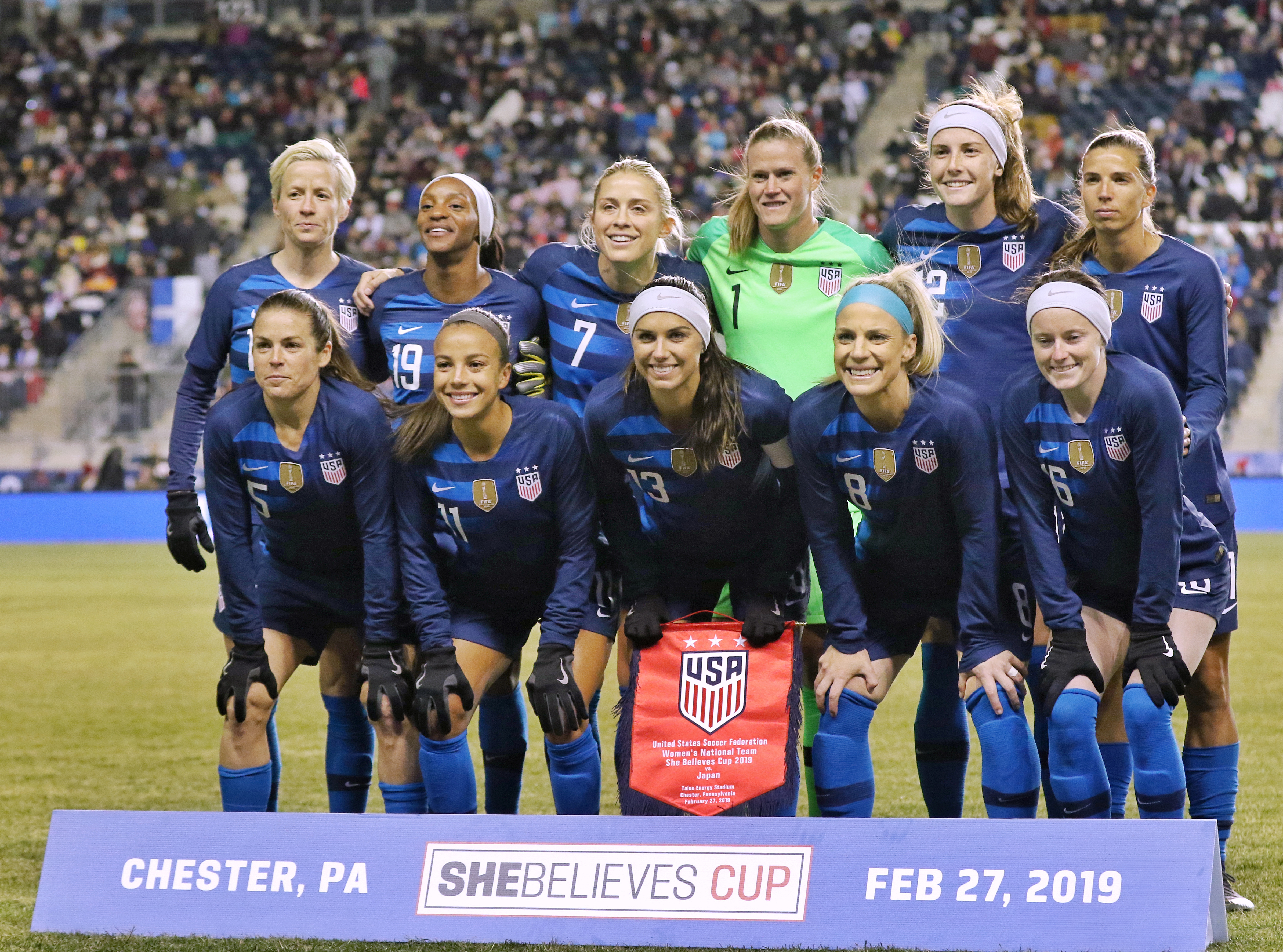 Starting XI of the United States women's soccer team posing for a photograph before their match against Japan at the 2019 SheBelieves Cup.